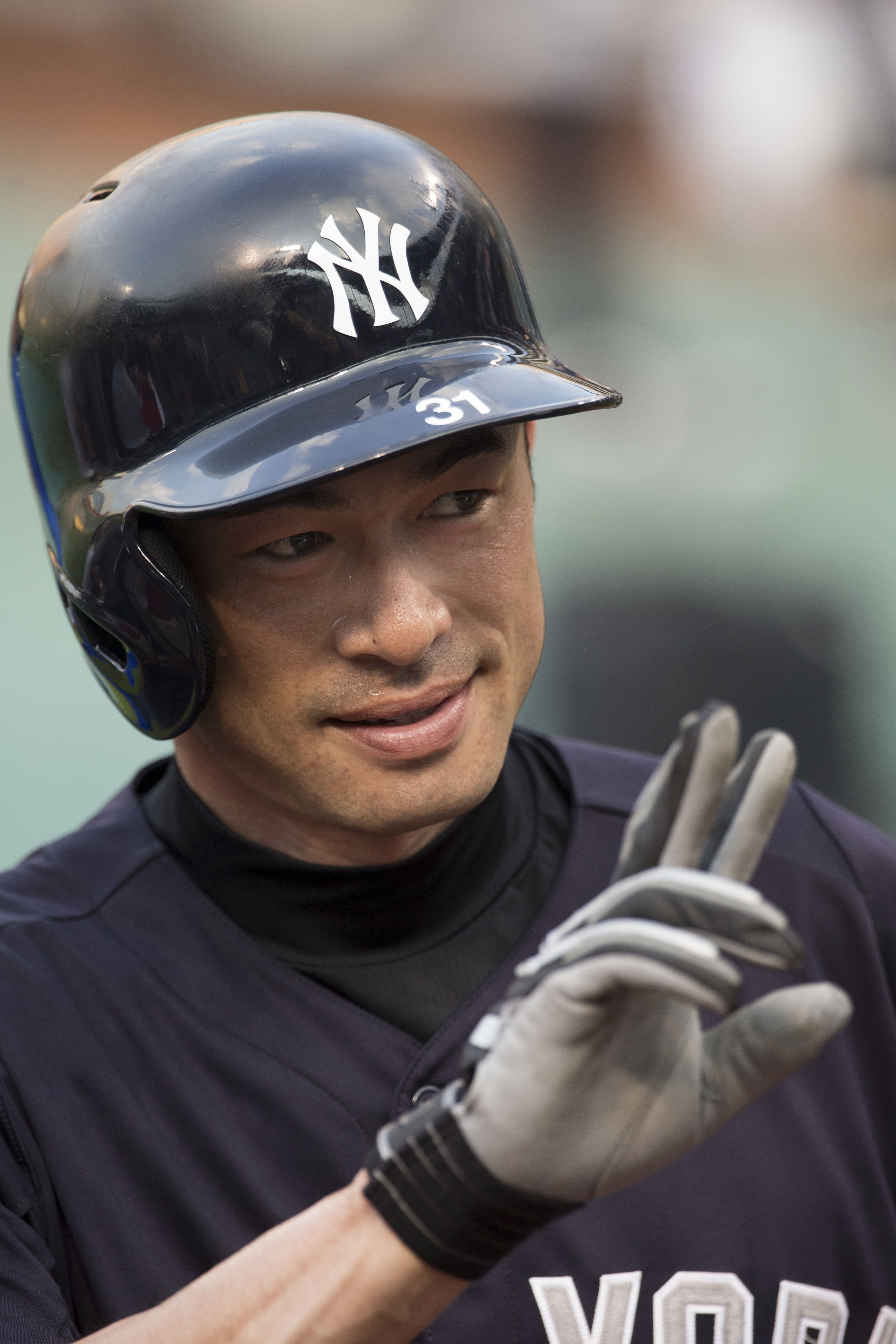 Ichiro Suzuki - Yankees @ Orioles - Sept 10, 2013